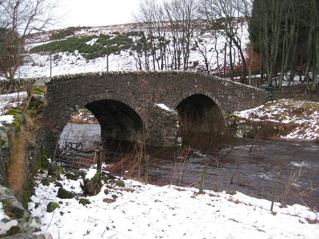 Bridge at Glendevon This old stone bridge over the Devon is at the start of the drive to Glendevon House.